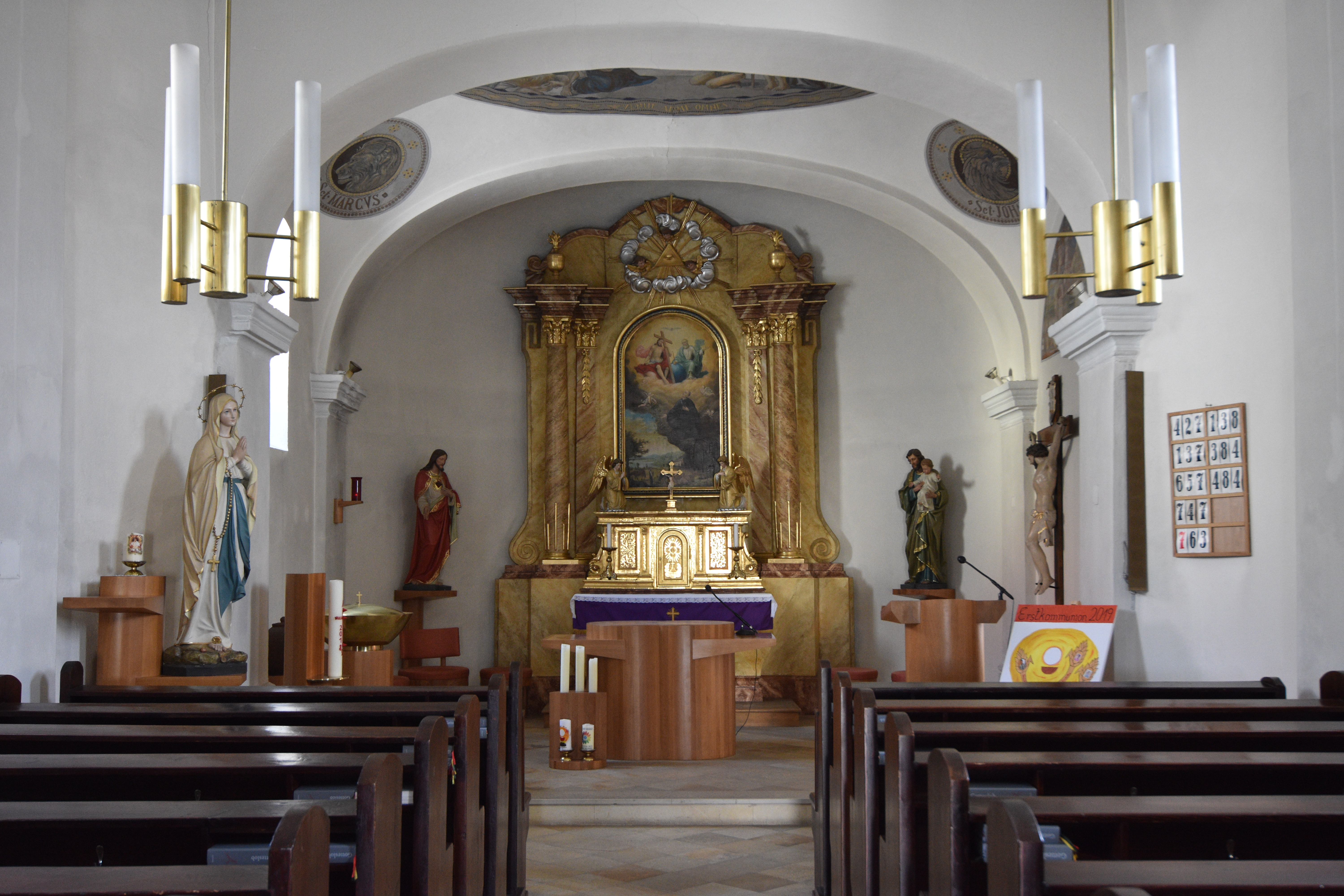 Church Oberkohlstätten - Interior